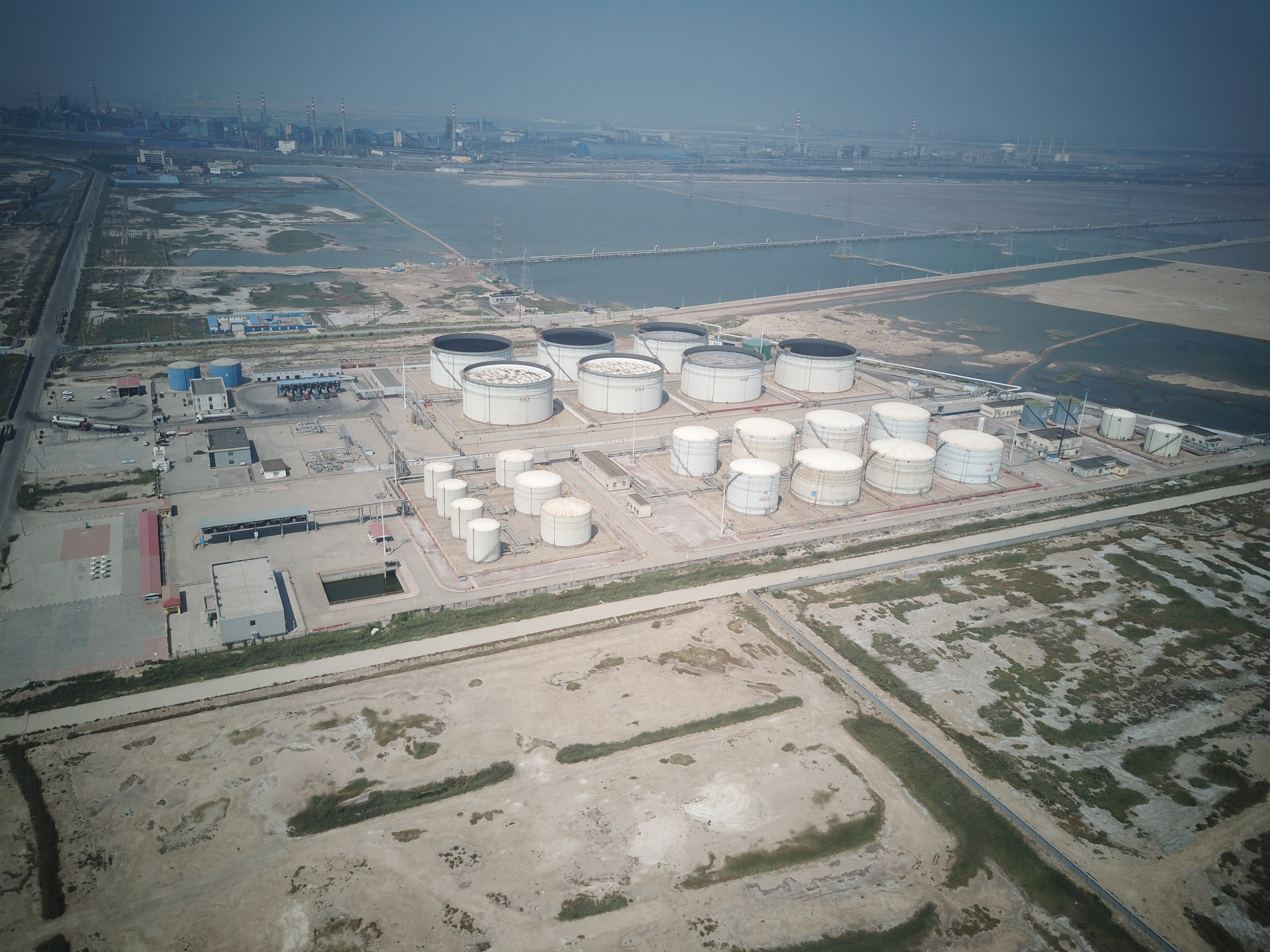 黄骅港航拍